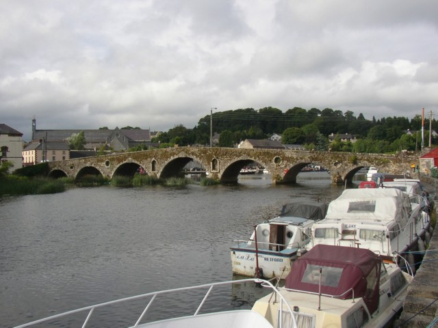 Bridge between Graiguenamanagh and Tinnahinch, Co. Kilkenny / Co. Carlow. A shapely bridge over the River Barrow, which forms the county boundary.